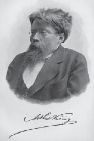 Portrait of Arthur Konig from Pokorny, J.